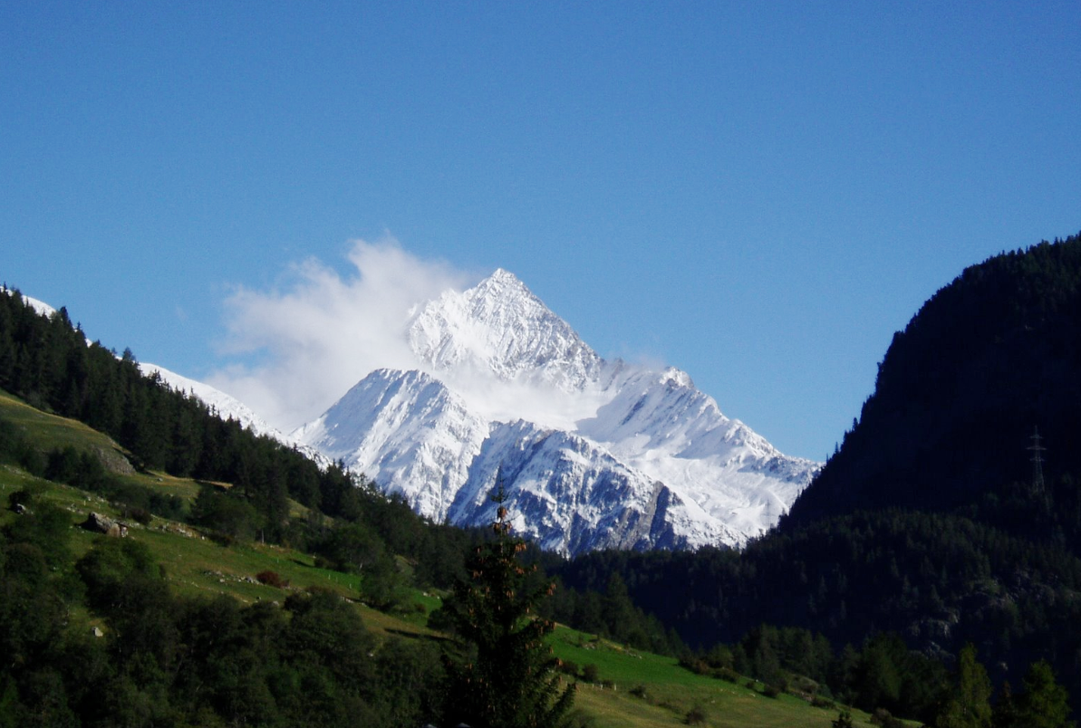 Piz Linard from Southwest, Silvretta range